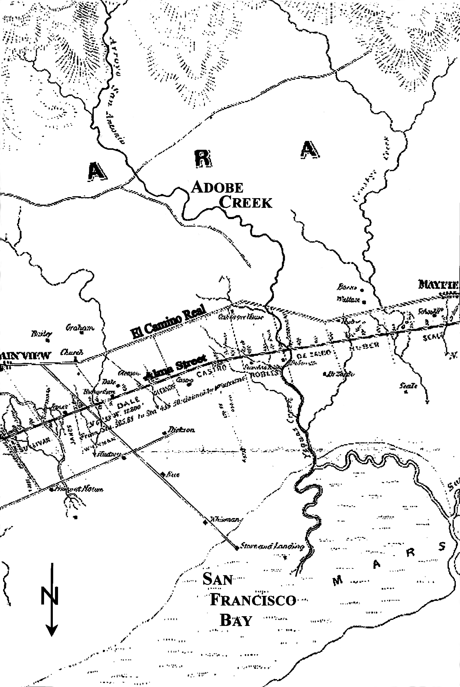 This is a portion of an historic map created in 1862. It was reproduced by Pilson and reproduced again by me from that image and converted from pdf to jpg.